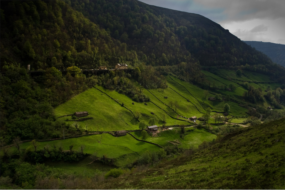 Montes de la Engaña, in the watershed of the Cantabrian Mountains. At the top shows the abandoned station of Yera, in the northern mouth of the tunnel of the same name. It was part of the never-completed Santander-Mediterranean railway.